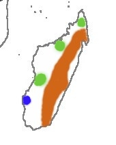 Mesites distribution map Brown Mesite (Mesitornis unicolor) in orange White-breasted Mesite (Mesitornis variegatus in green Subdesert Mesite (Monias benschi) in blue